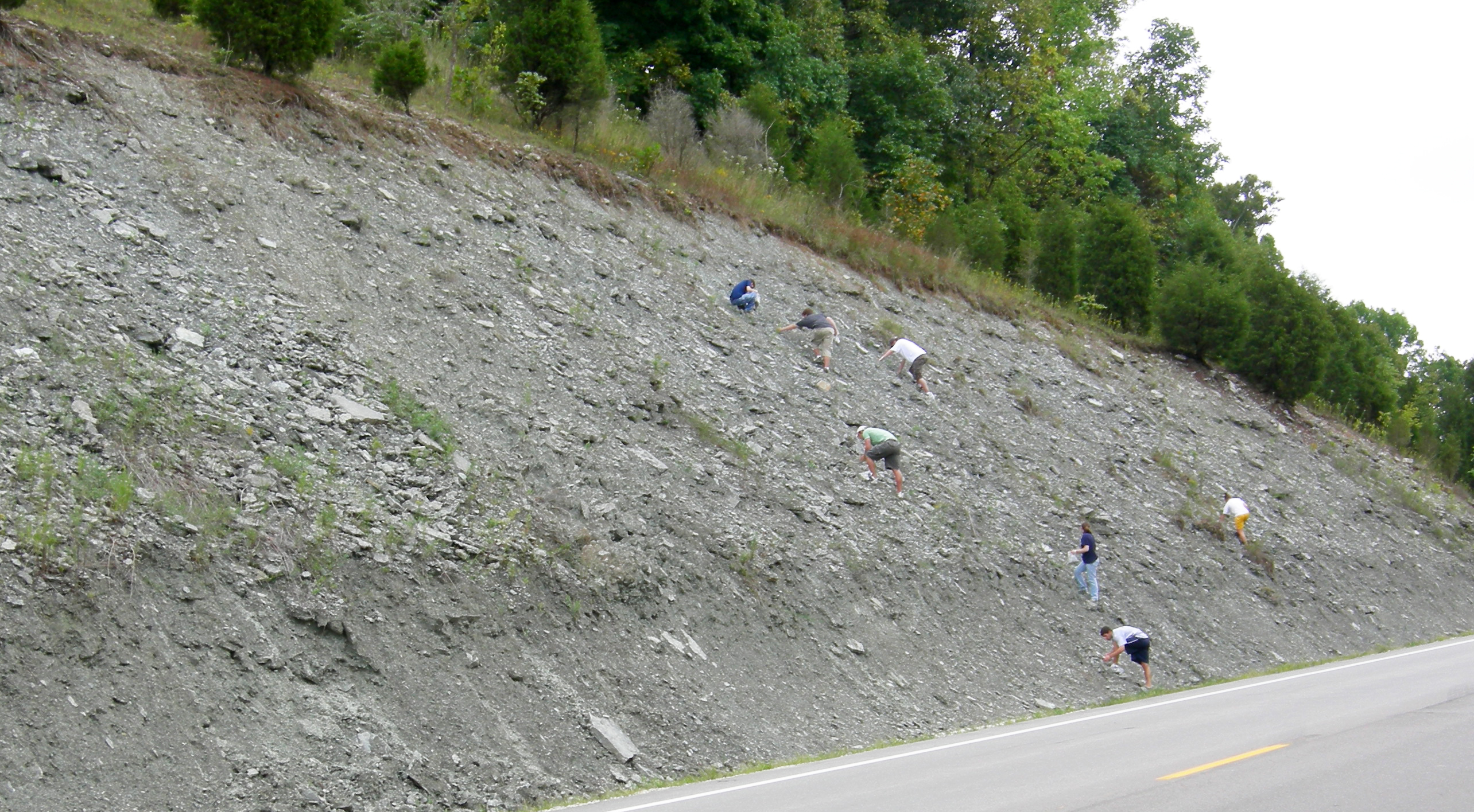 Liberty Formation (Upper Ordovician) exposed north of Brookville, Indiana.